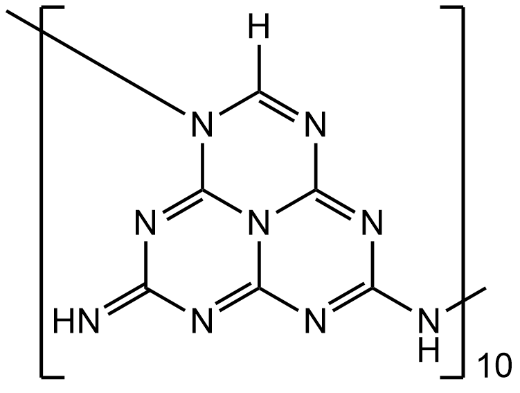 Structure of melon and its polymer after T, Komatsu, showing one 2-imino-heptazine unit and the amino bridge between nitrogen 4 of each heptazine core and carbon 8 of the next core.